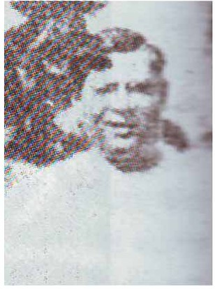 Ramesh Chandra Majumdar (রমেশচন্দ্র মজুমদার), Ex-Vice chancellor of University of Dhaka and famous Indian Historian.